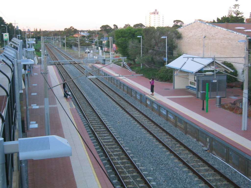 Transperth Swanbourne Train Station